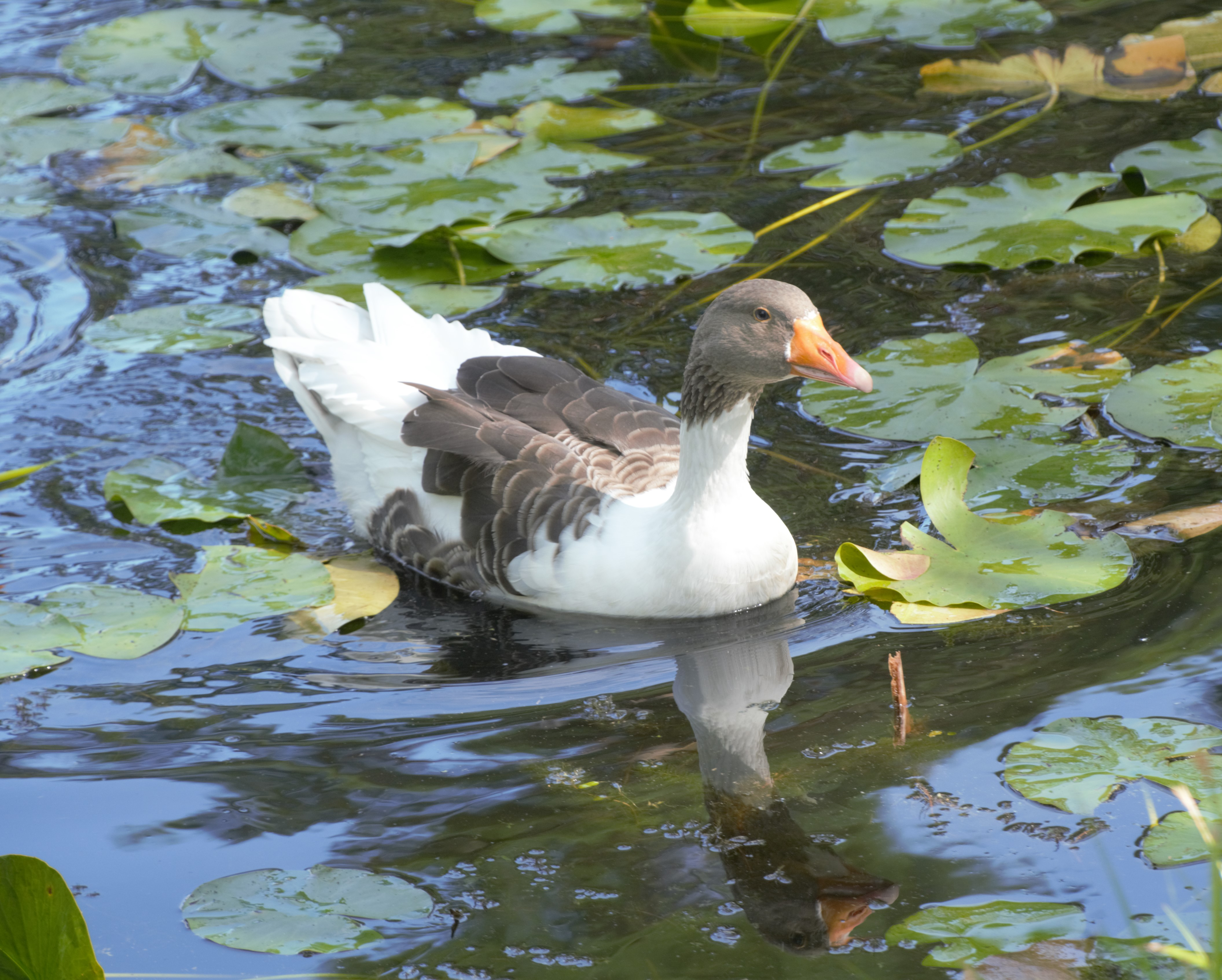 Ölandsgås. Swedish Country Goose Rase